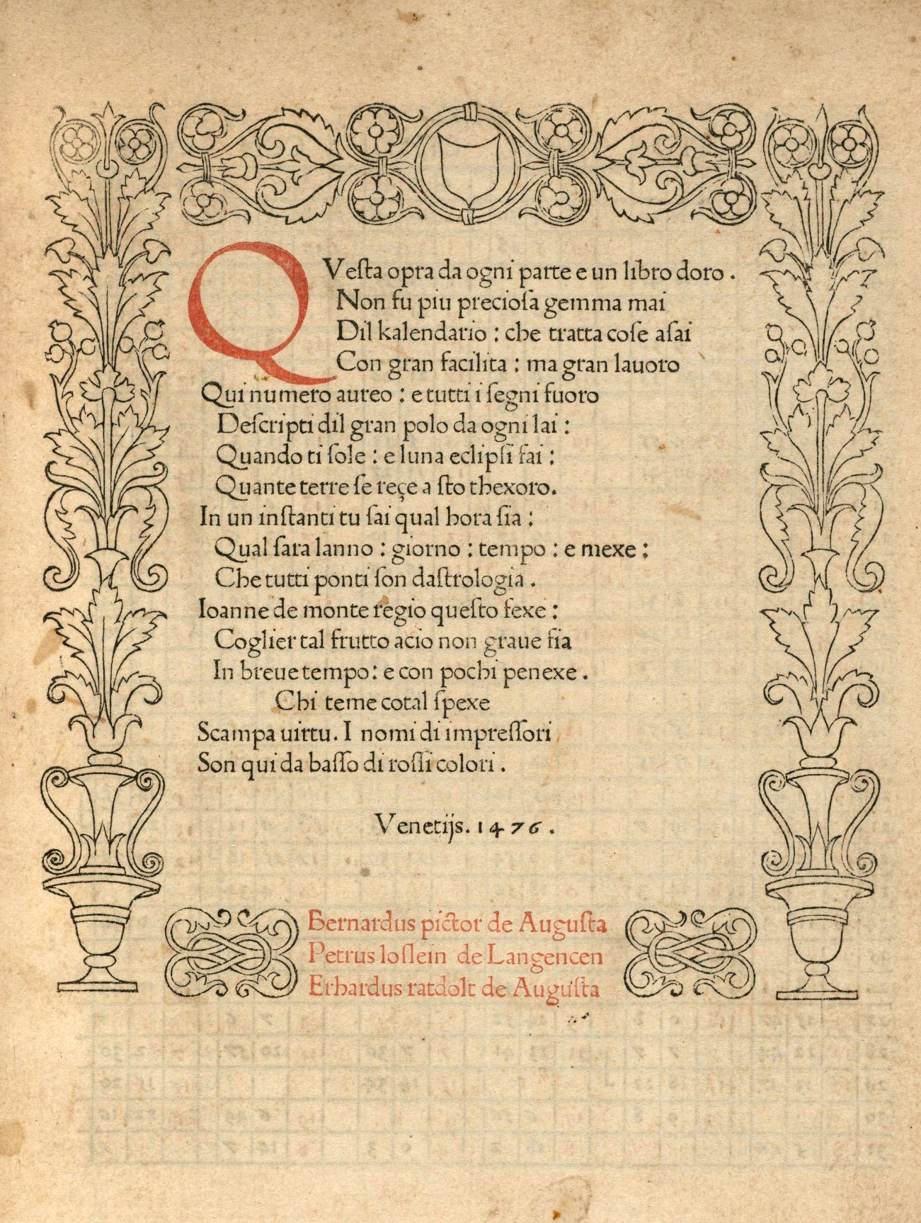 Title page from Qvesta opra da ogni parte e un libro doro, Venice: 1476, by Joannes Regiomantanus (1436-1476). Cropped and rotated so image is centered better. Typ Inc 4366, Houghton Library, Harvard University